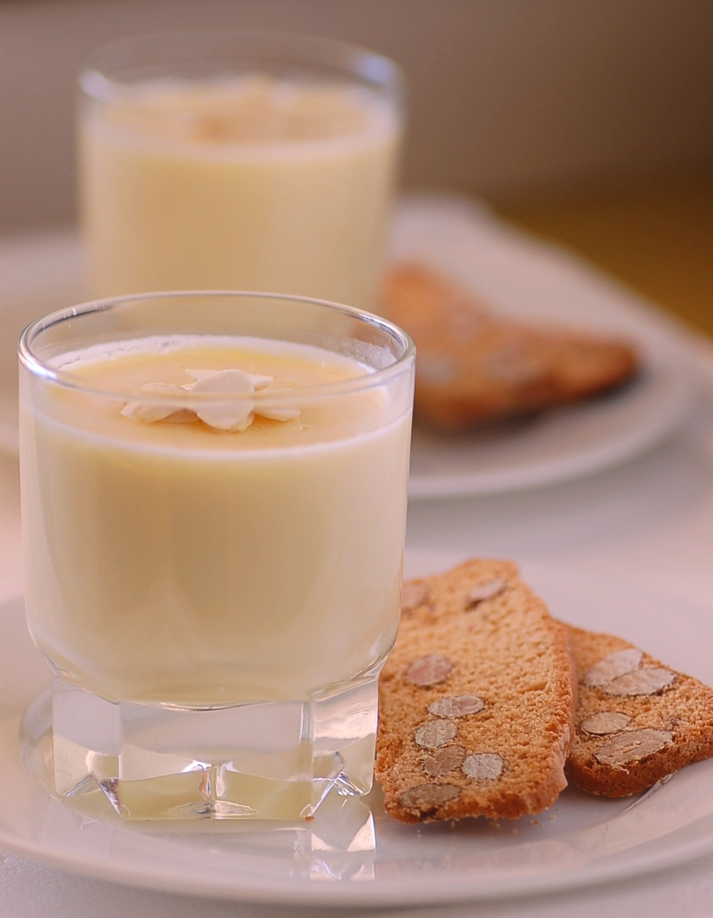 recipe on my blog